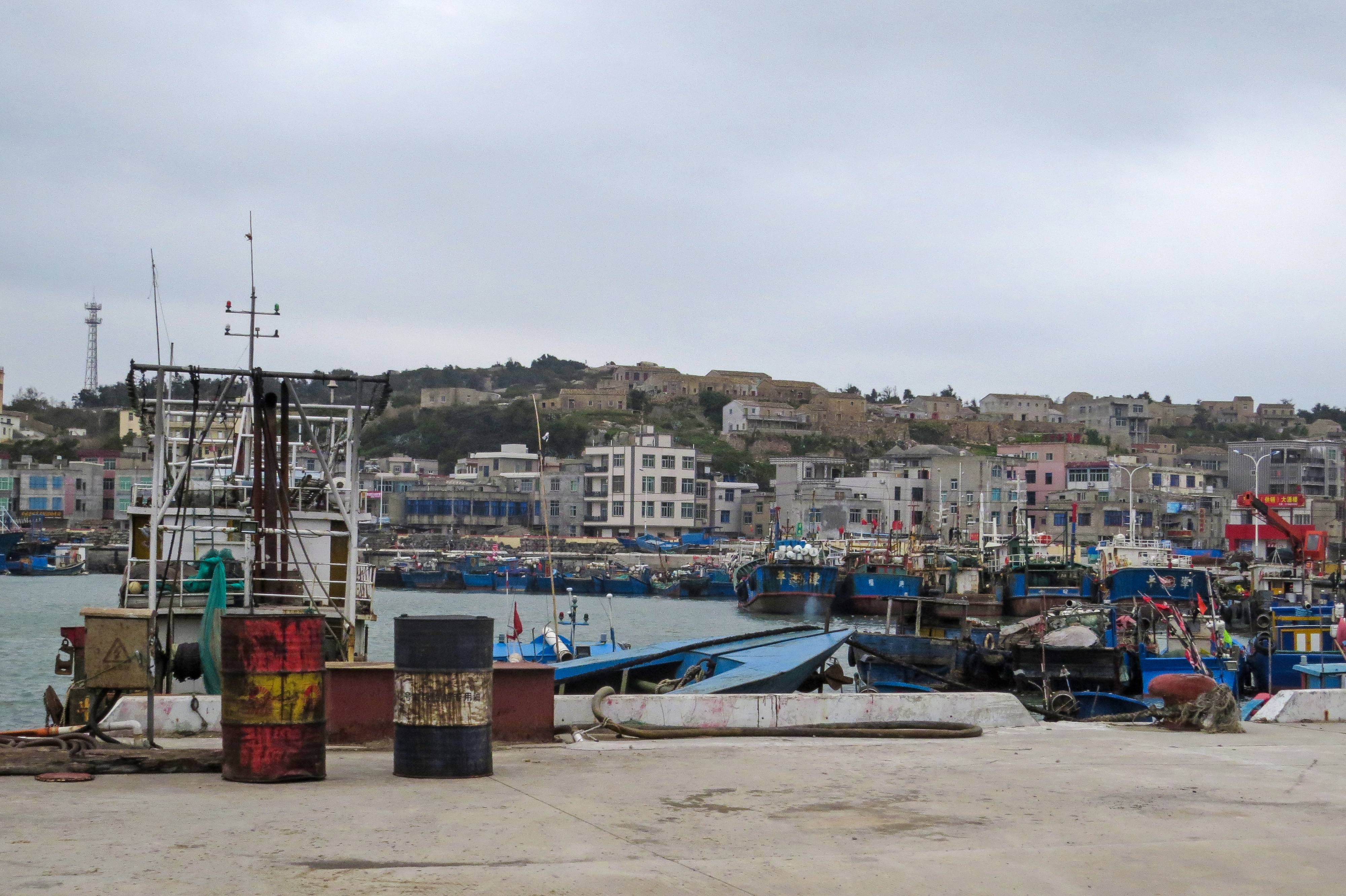 Hills and the sea.